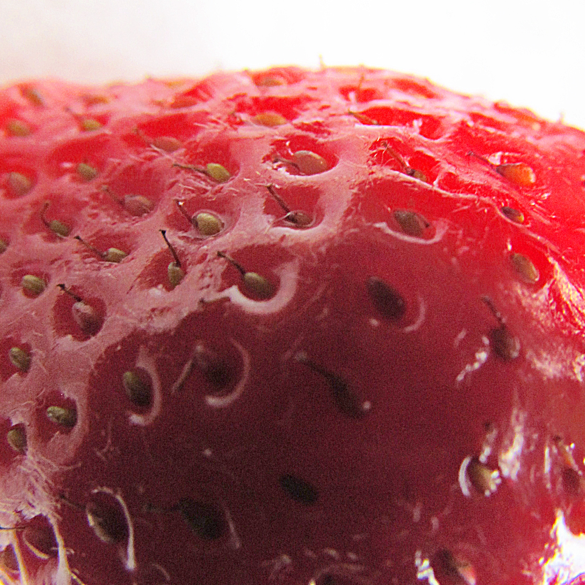 Fragaria vesca pseudocarp